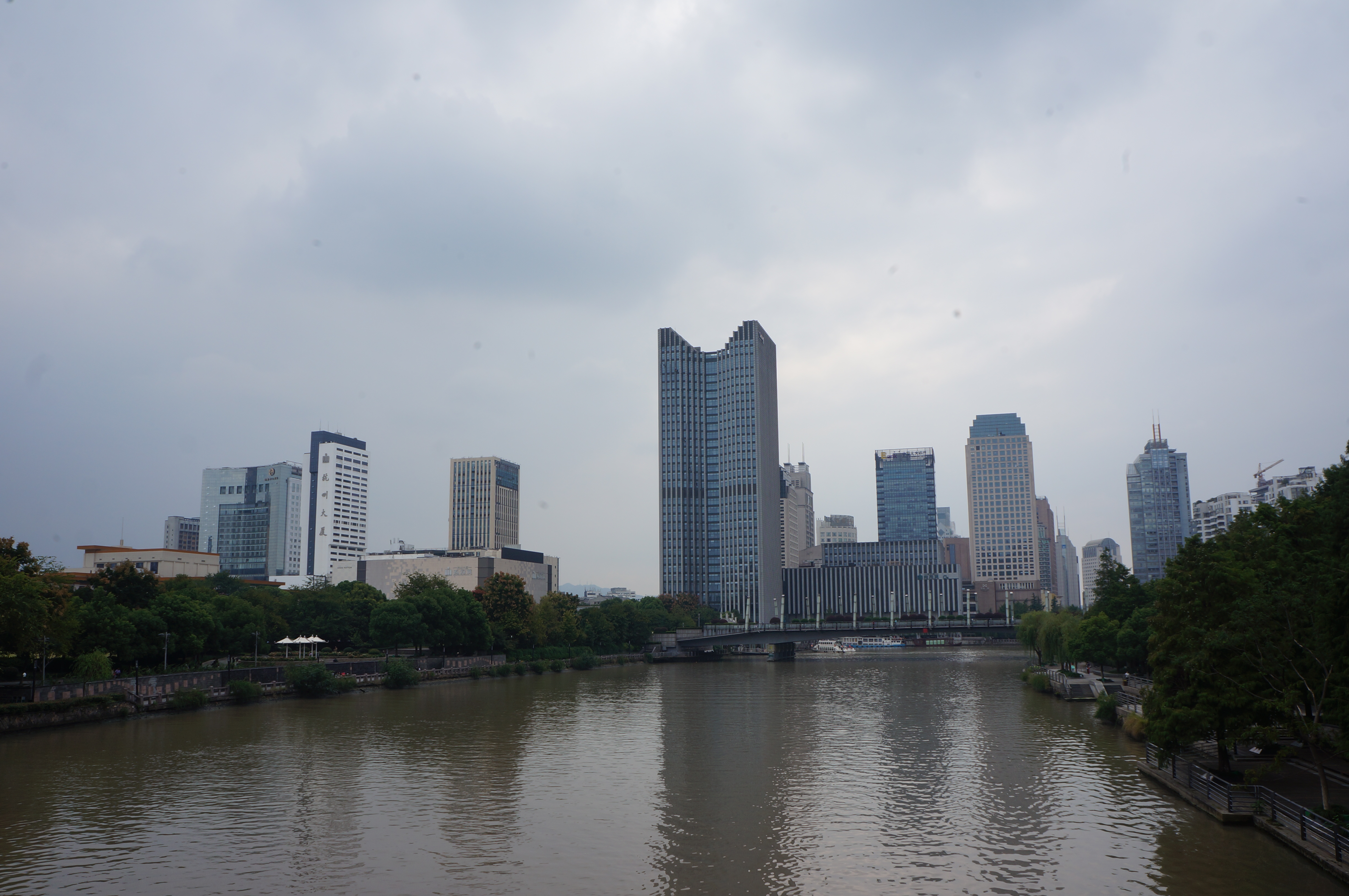 201610 Southern Gongshu District